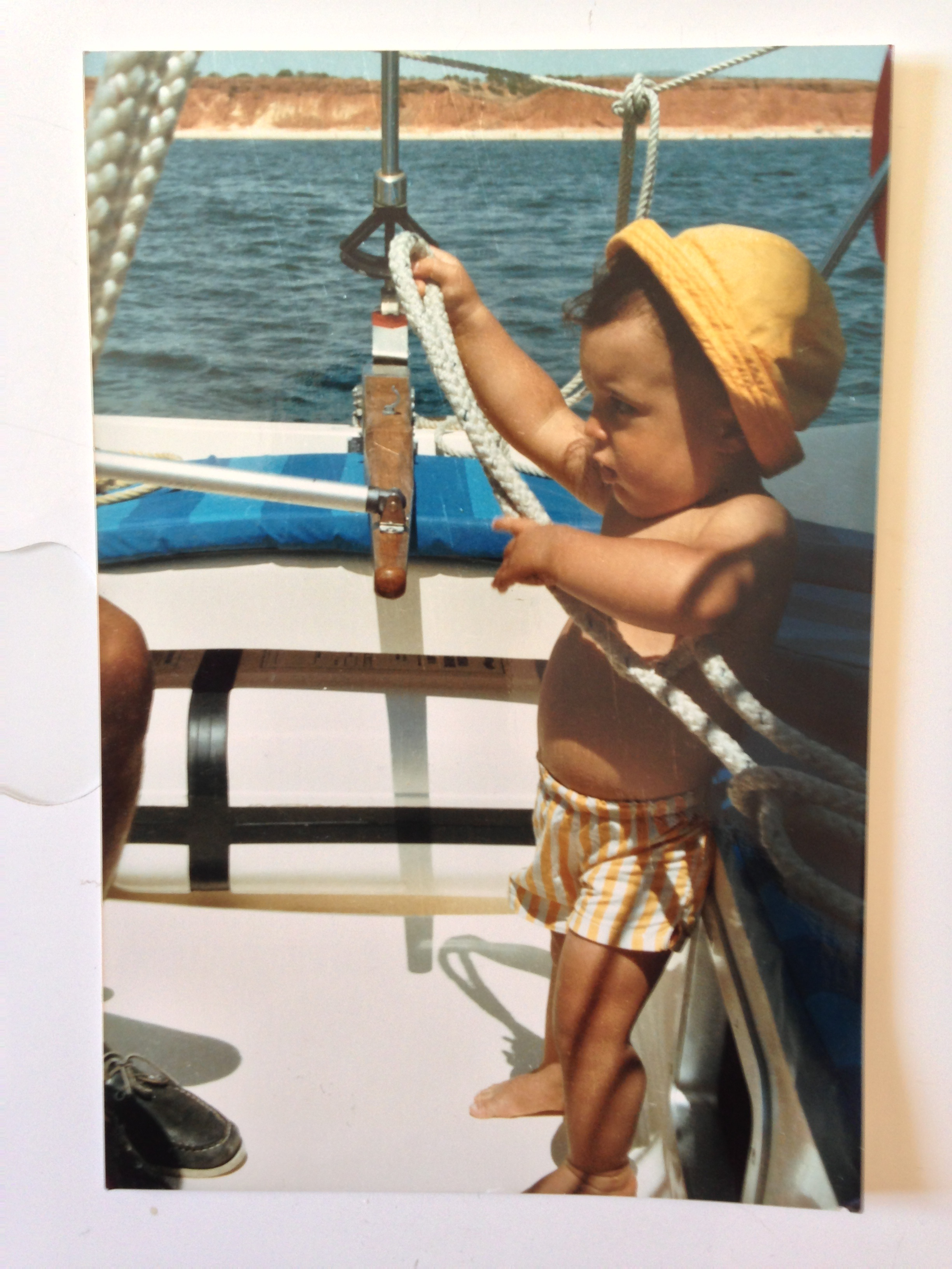 Francisco boating at age 1